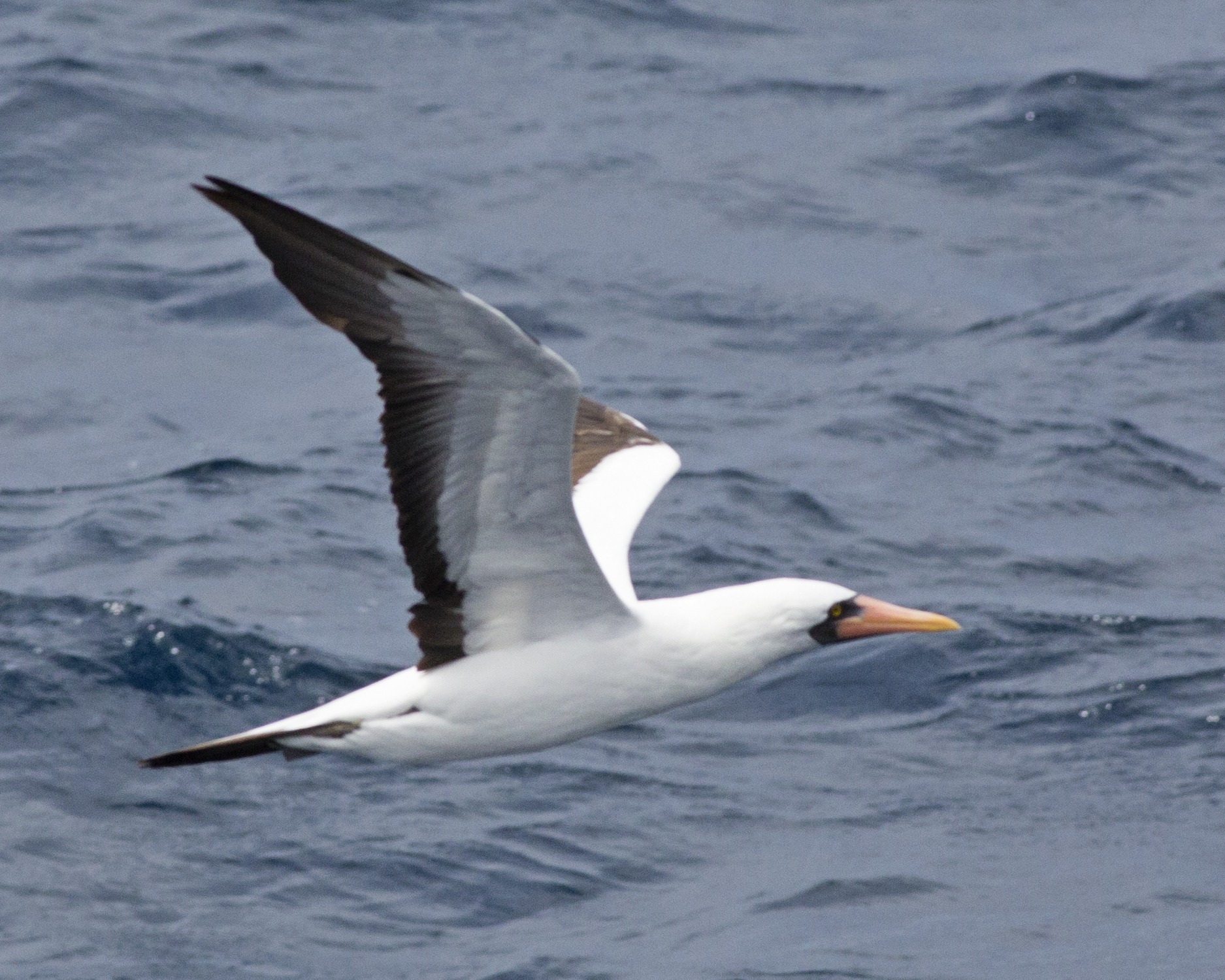 Nazca Booby Sula granti 7th. August 2014 Santa Fe Island Galapagos, Ecuador PM0A3537